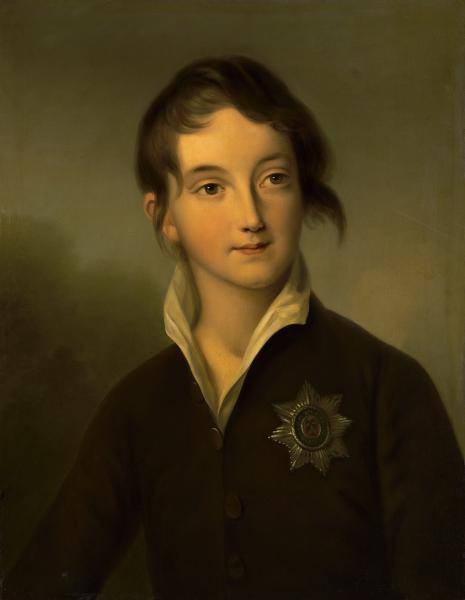 Nicholas I Pavlovich as a boy, circa 1808